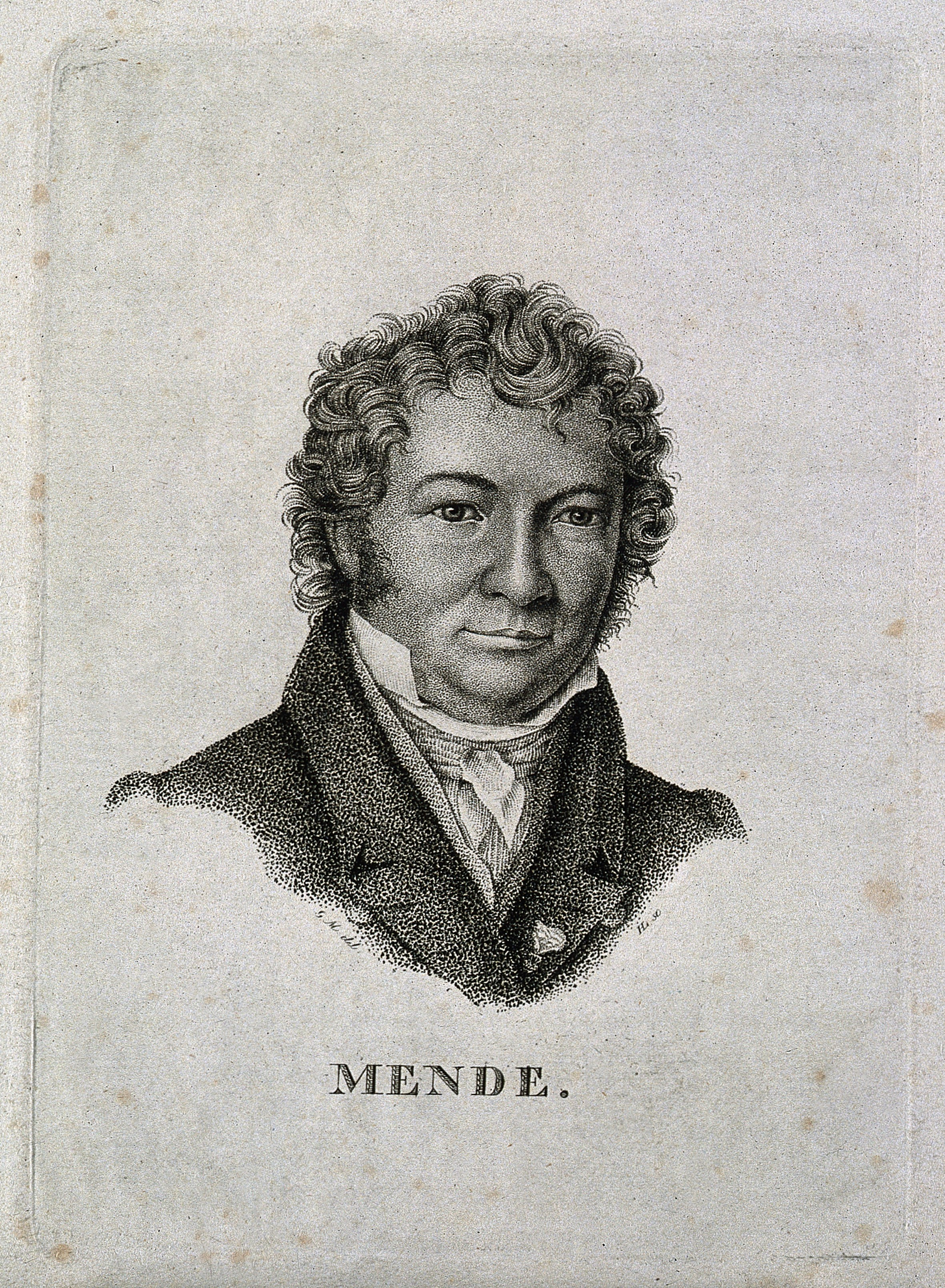 Ludwig Julius Kaspar Mende. Stipple engraving by H. Lödel after [G. M.]. Iconographic Collections Keywords: portrait prints; stipple prints; Ludwig Julius Kaspar Mende